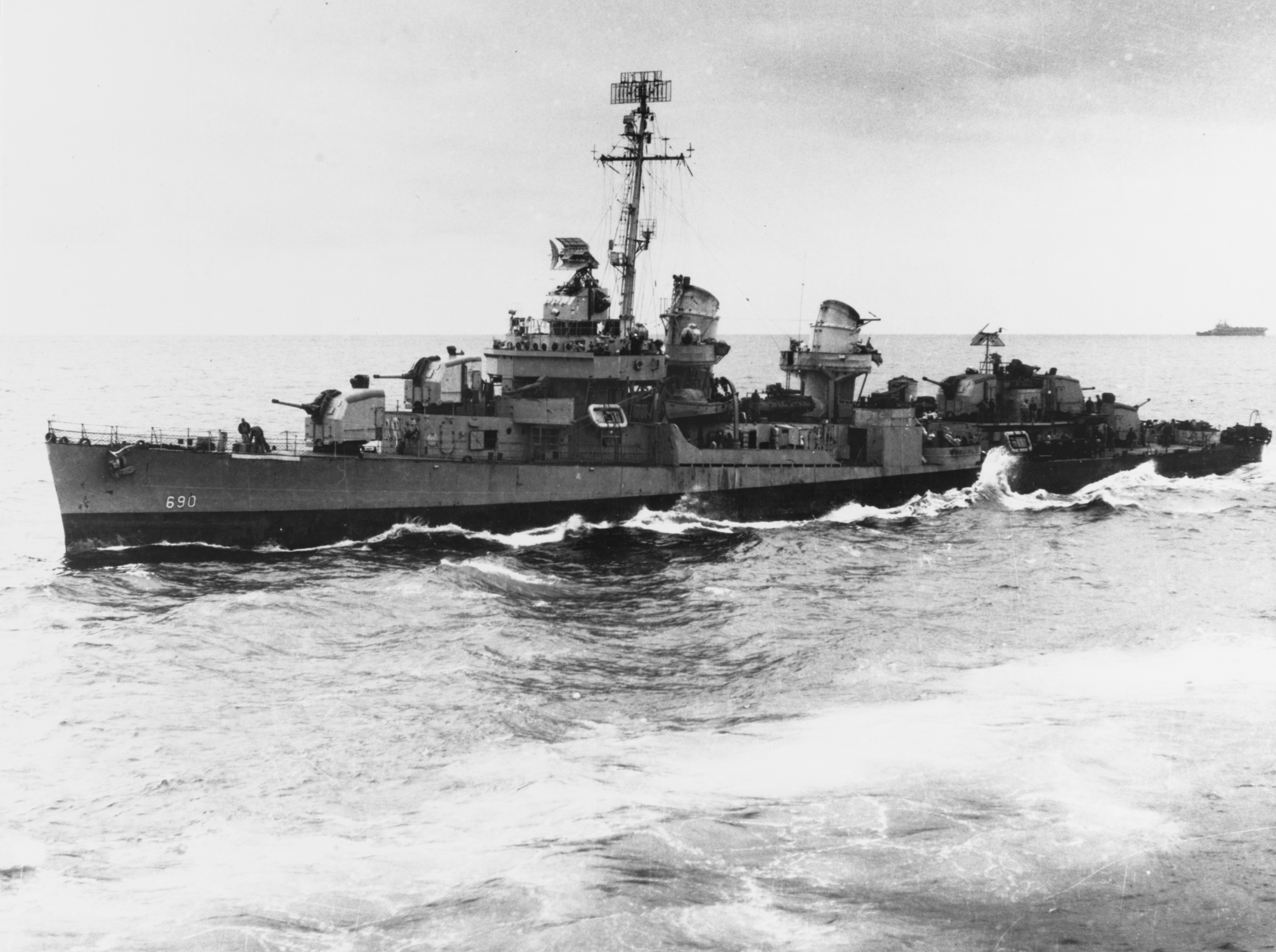 The U.S. Navy destroyer USS Norman Scott (DD-690) coming alongside the aircraft carrier USS Shangri-La (CV-38) for refueling, while enroute from Okinawa to San Pedro, California (USA), in October 1945.